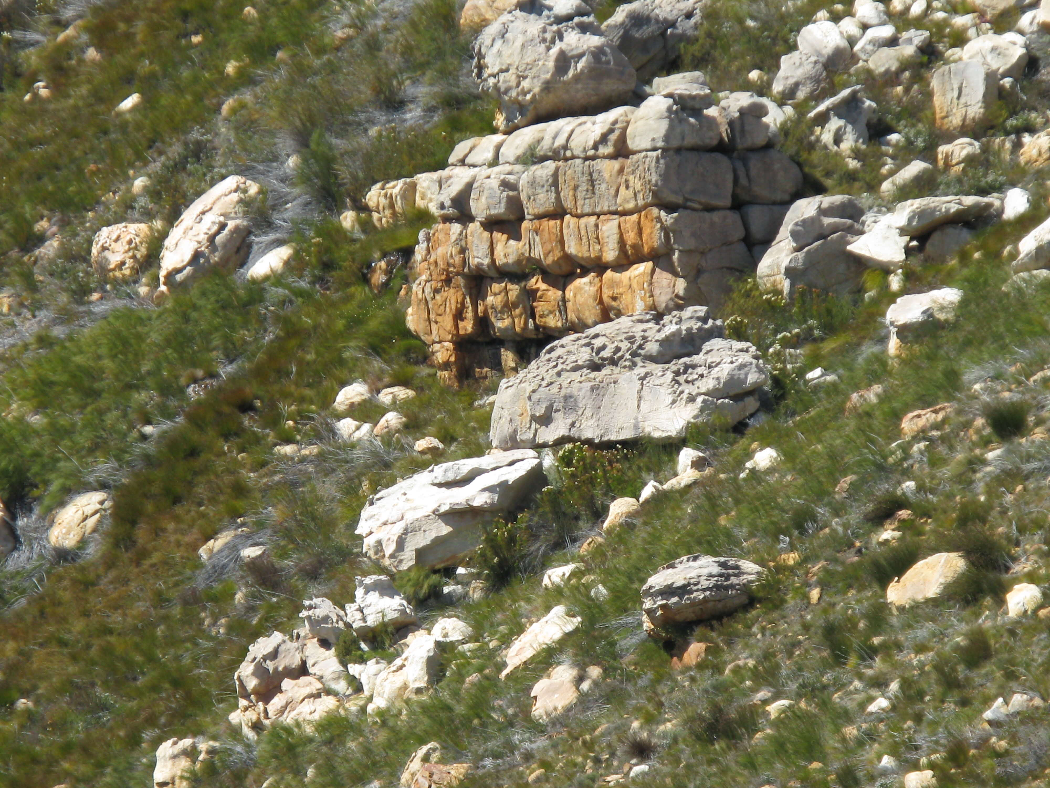 Cedarberg sandstone has certain patterns of erosion and cracking that create intriguing effects. Here we have various boulders, including a bus-sized block of a type that splits beautifully regularly into brick-like right parallelepipeds.